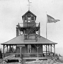 Historical photo of the Hermitage on Peter's Rock in North Haven, CT.